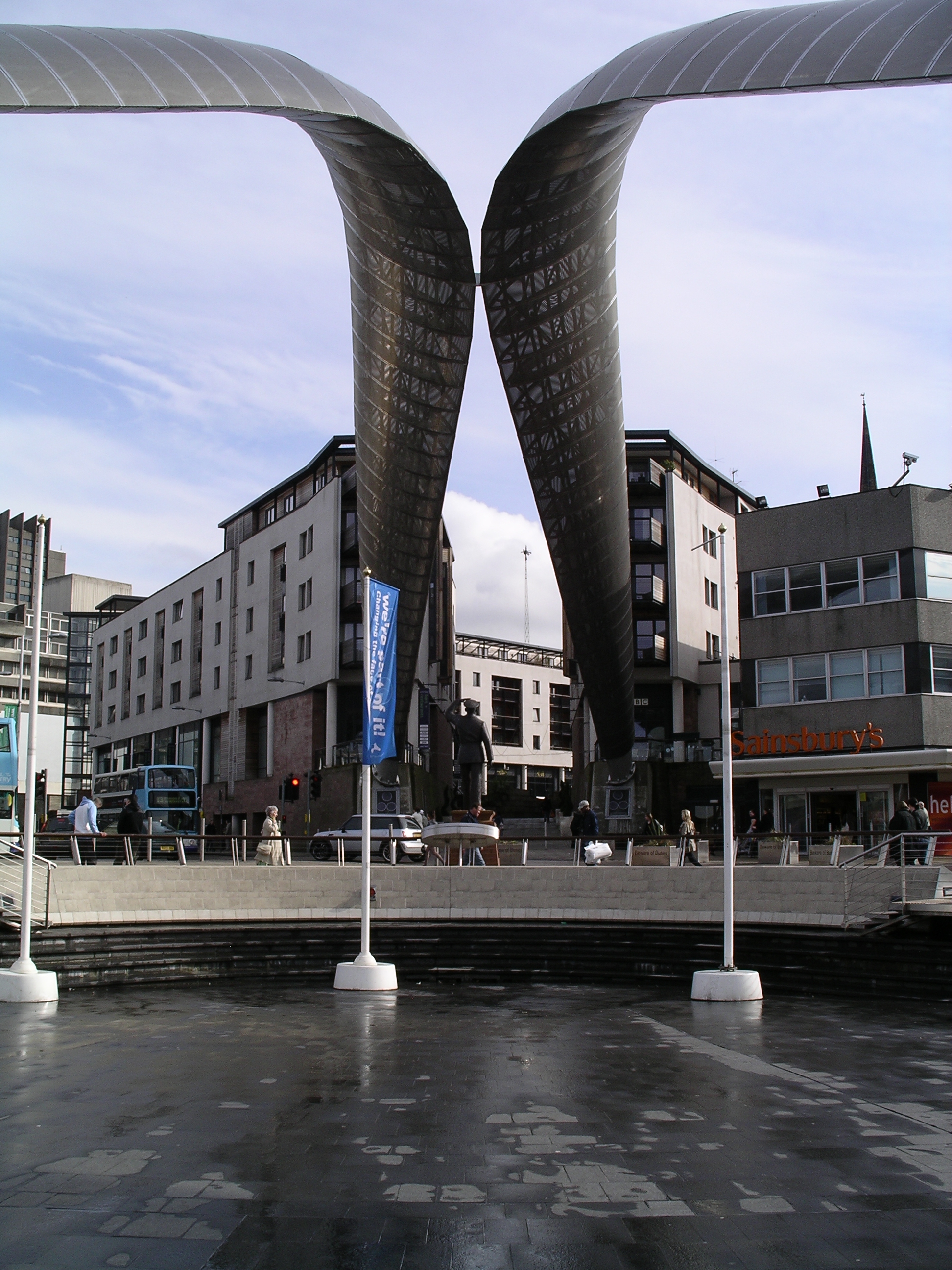 Frank Whittle statue and arches, Coventry, England. The spire of the new Coventry Cathedral can be seen between the buildings in the background.